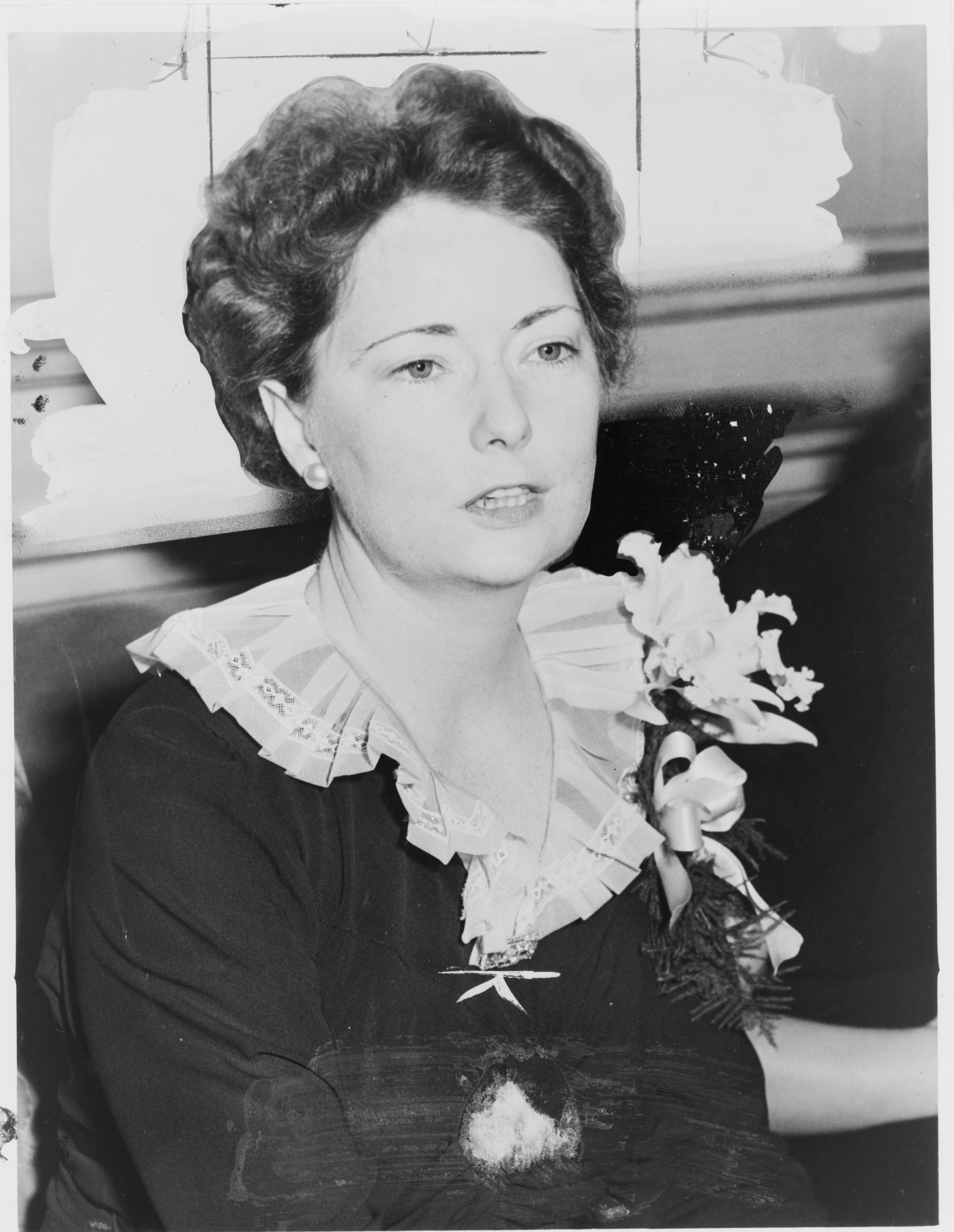 Margaret Mitchell all set to launch cruiser after long training as Red Cross launchee / World Telegram & Sun photo by Al Aumuller.